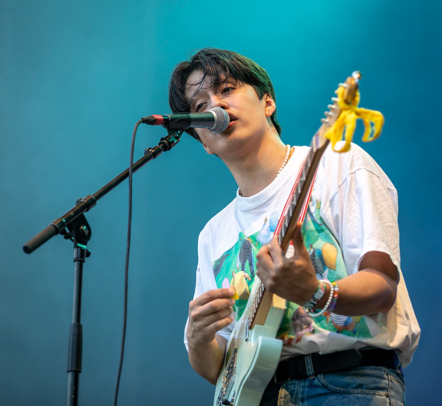 Boy Pablo, aka Nicolas Pablo Munoz, at the Petrus stage in Sofienbergparken. The concert was part of Piknik i Parken and took place on 15. June 2019 in Oslo.